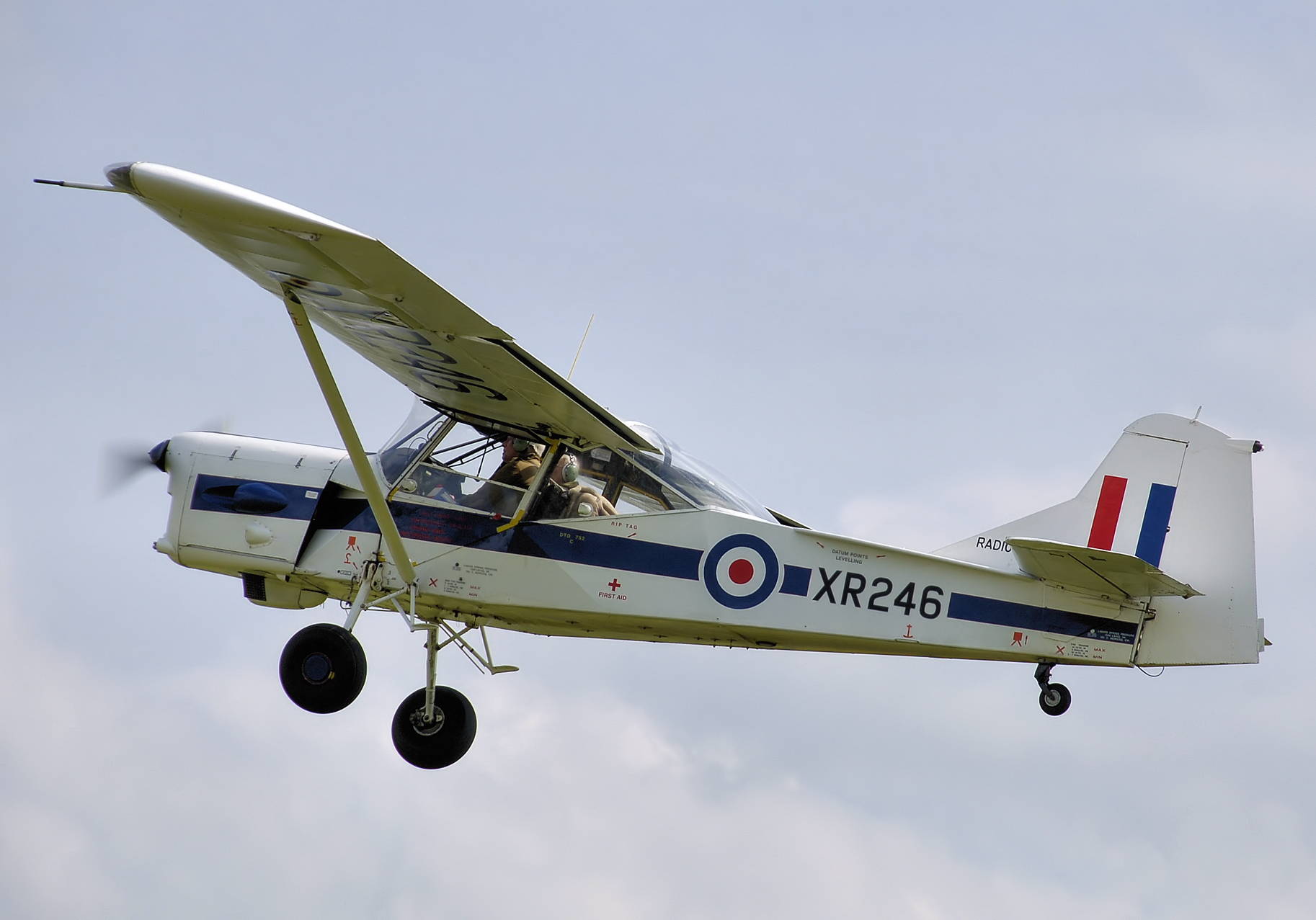 ex-RAF privately-owned 1961-built Auster AOP.9 (G-AZBU, RAF code XR246) takes off from the Great Vintage Flying Weekend, Kemble Airport, Gloucestershire, England. The tail says "Radio Flight". A long search of the internet gives little information of what this color scheme means but I believe this aircraft is painted in the colours of the RAE Bedford Radio Flight (but I don‘t know what Radio Flight means).